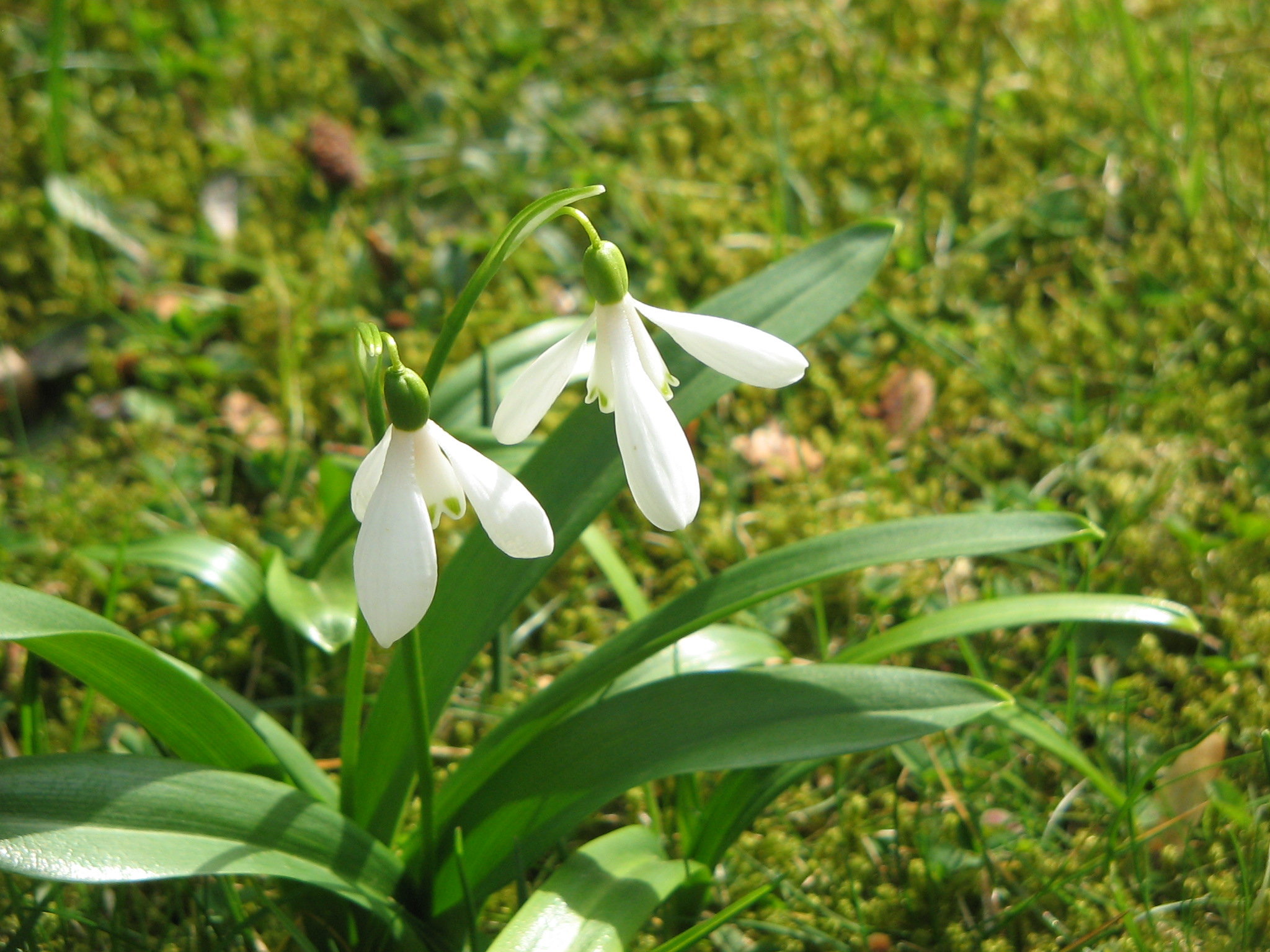 Galanthus woronowii close-up